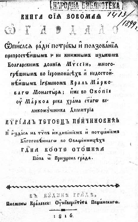 Kiril Peychinovich's Ogledalo